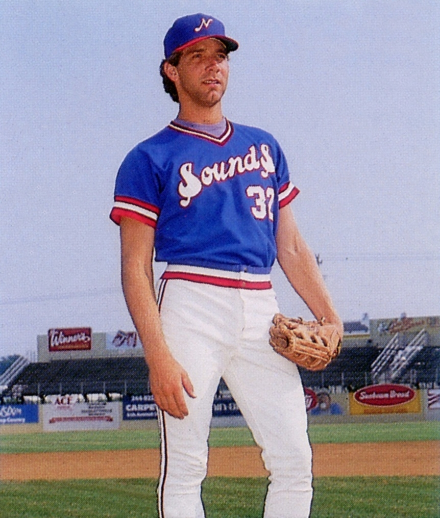 Pitcher Mike Henneman of the 1986 Nashville Sounds Minor League Baseball team of the American Association